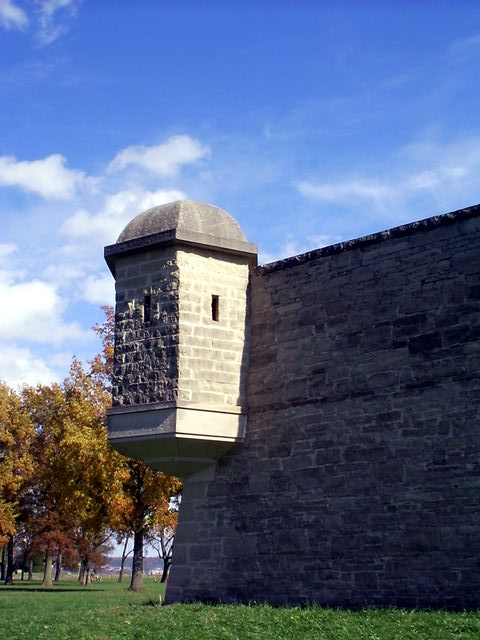 A detail of a bartizan on Fort de Chartres in Illinois.